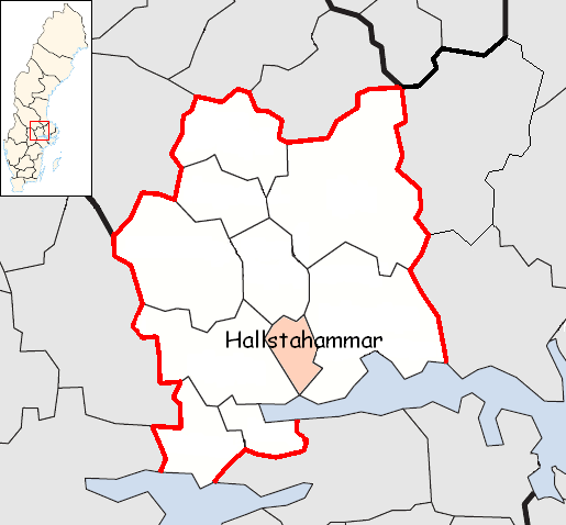 Hallstahammar Municipality in Västmanland County Designed by me. Mere outlines are a PD source from